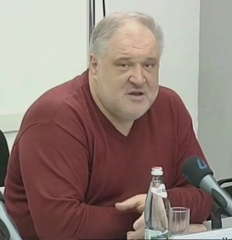 Volodymyr Tsybulko, Ukrainian politician, former member of the Ukrainian Verkhovna Rada